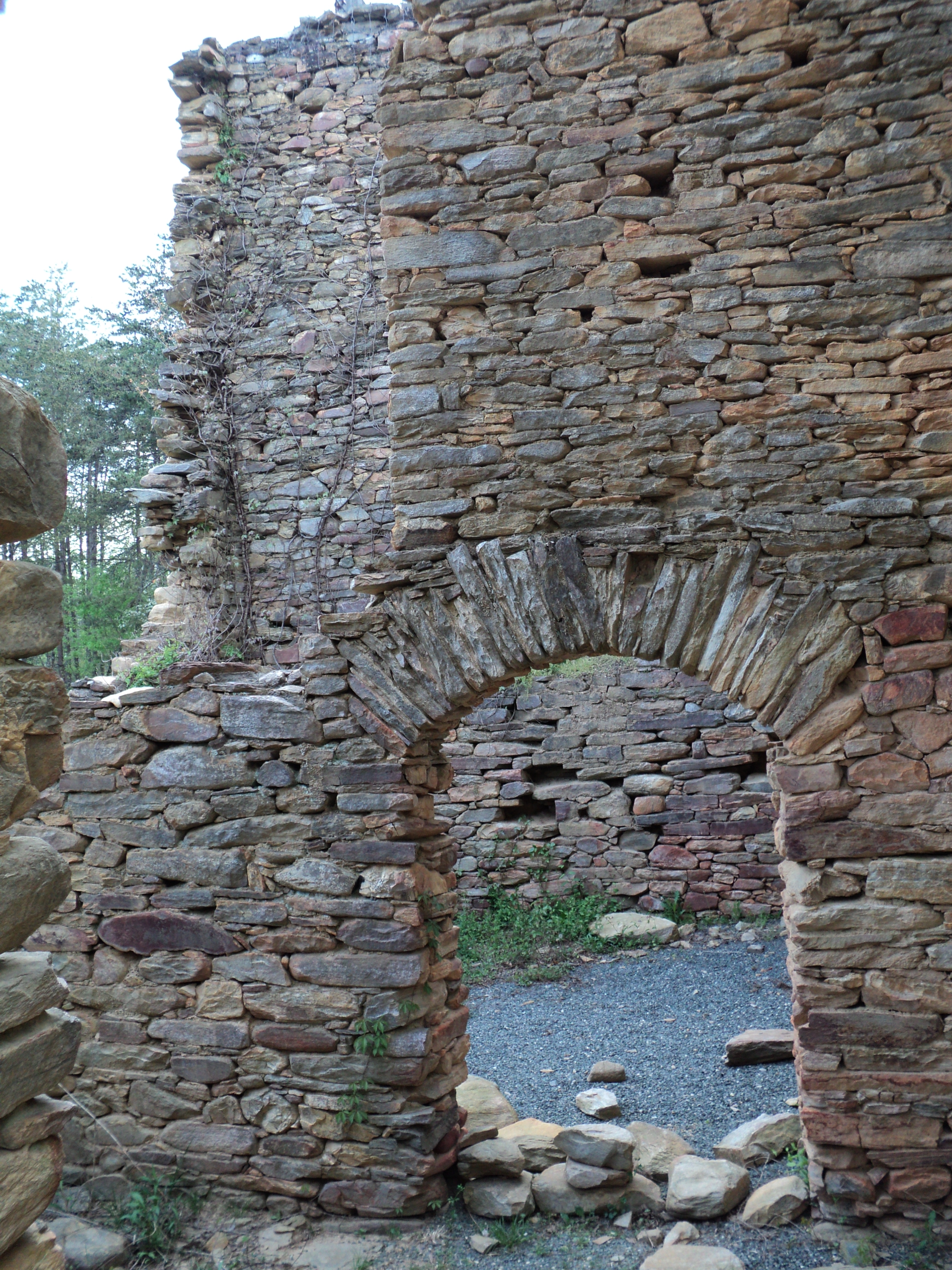 View of interior walls, The Rock House, near King, Stokes County, North Carolina. Owned by the Stokes County Historical Society and listed on the National Register of Historic Places.